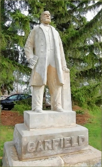 Staute of james a. garfield